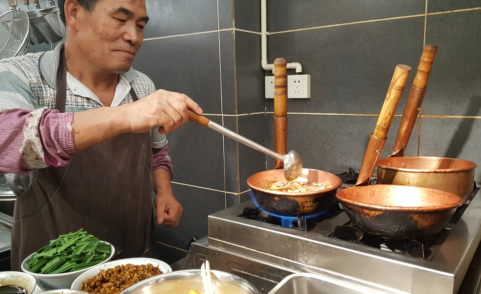 Mixian (米线) rice noodles being cooked in copper pots (铜锅) on gas elements at a noodle restaurant in Kunming (昆明), Yunnan (云南), China.